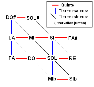 Just intonation